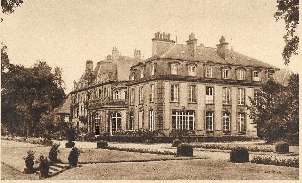 Château d'Hayange (Moselle, France), seat of the de Wendel family